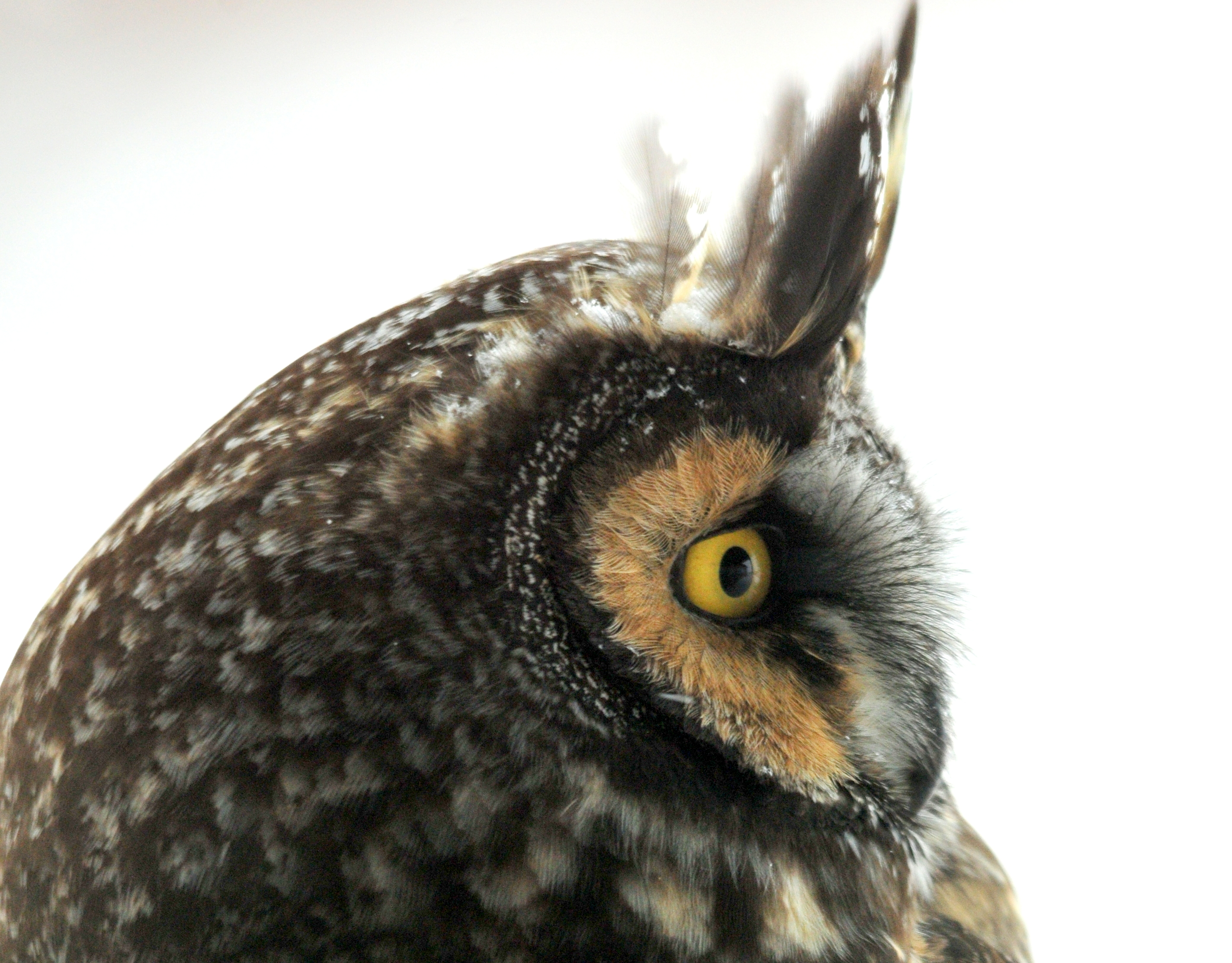 We had an unexpected visitor this week during the snowstorm. A long-eared owl was perched on our back deck and we were able to watch it through the Visitor Center window. It is pretty obvious why it is called a long-eared owl, with its long feathers on its forehead held erect. They are not actually ears, just feathers. Long-eared owls are not rare on Seedskadee NWR, but they are not commonly seen either. Their nocturnal habits, along with their tendency to spend the days hidden in the cottonwoods and willows, make them a rare sighting indeed. We really don't know how many we have here because of this. They are known to communally roost in the winter where food (meadow voles and other small rodents) are abundant. A few documented cases have found almost 100 wintering long-eared owls roosting together at one location. Photo:Tom Koerner/USFWS